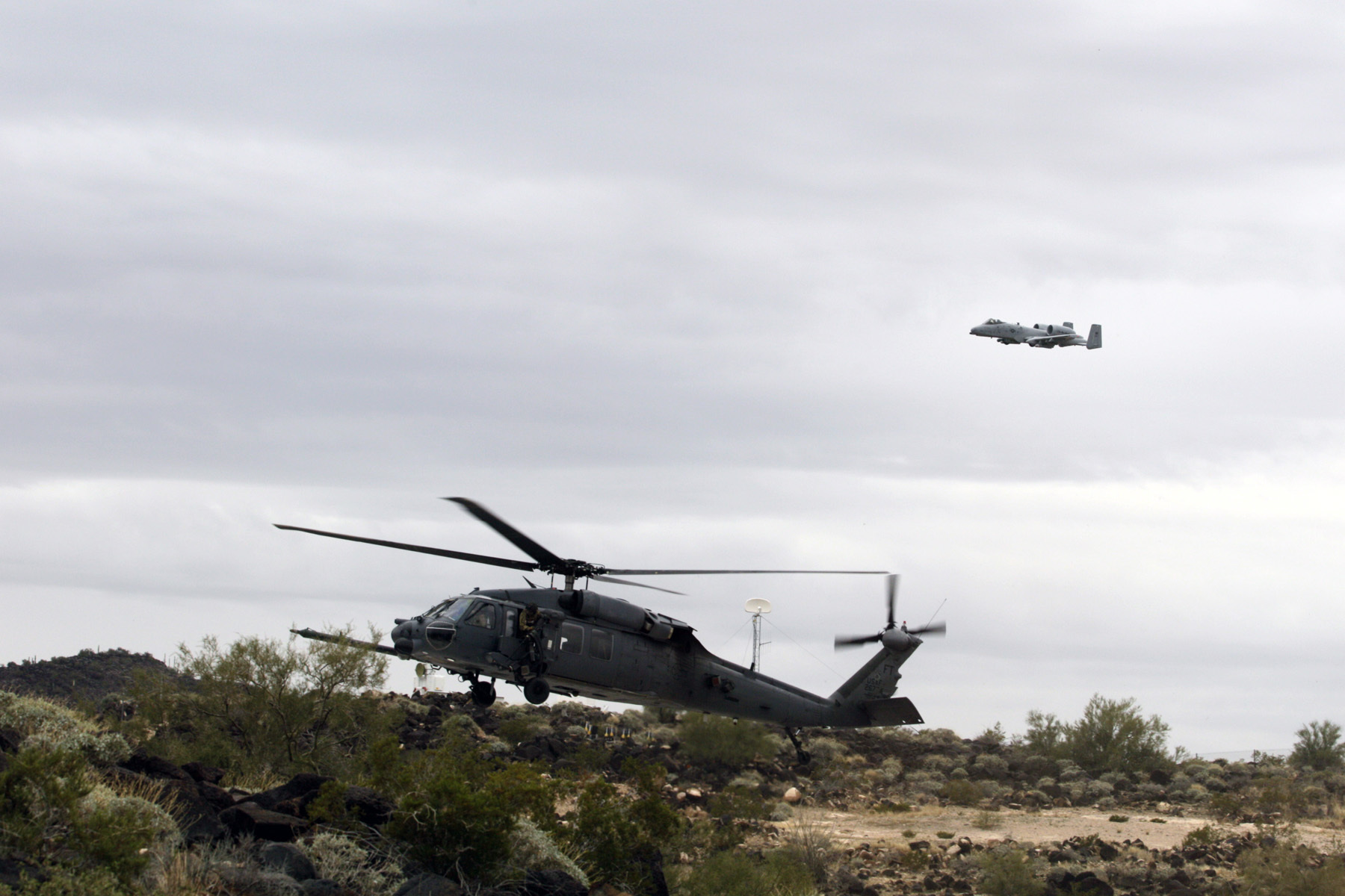 An HH-60 Pave Hawk and an A-10 Thunderbolt II participate in a combat search and rescue exercise in the Barry M. Goldwater Air Force Range, west of Tucson, Ariz., Jan. 29, 2015. The 107th Fighter Squadron and related elements of the 127th Wing are participating in a series of training exercises known as Snowbird, while at the Total Force Training Center at Davis-Monthan Air Force Base. The 107th flies the A-10 Thunderbolt II and is assigned to Selfridge Air National Guard Base, Mich. The HH-60 is operated by the 55th Rescue Squadron at Davis-Monthan. (U.S. Air National Guard photo by Tech. Sgt. Dan Heaton)